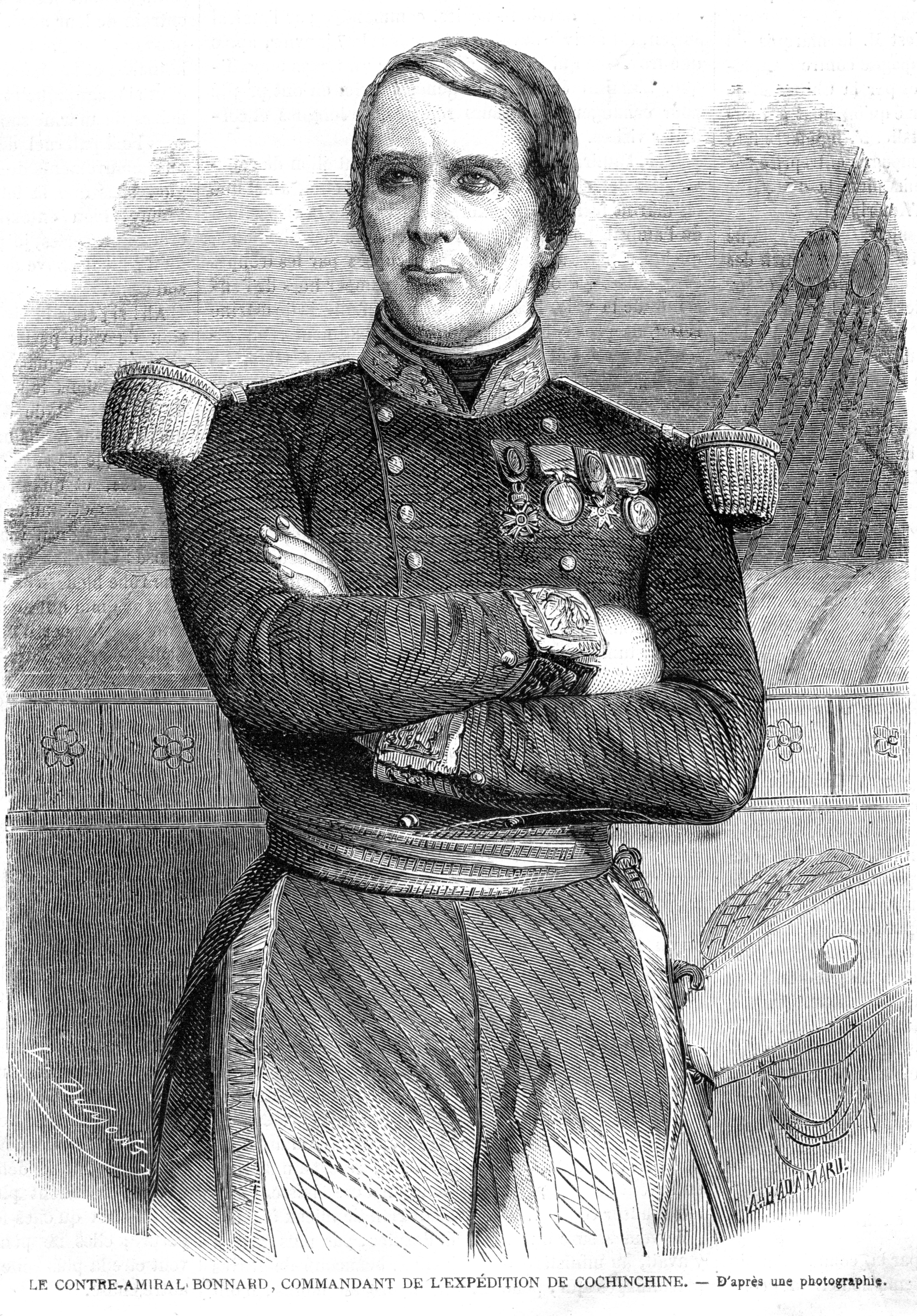 L'Illustration 1862 gravure Le contre-amiral Bonnard commandand de l'expédition de Cochinchine